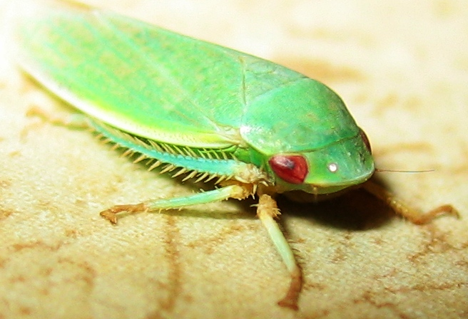 This little creature found its way onto a kitchen counter in Phoenix, AZ. Probably the genus Gyponana. The eye detail as seen by the camera surprised me.